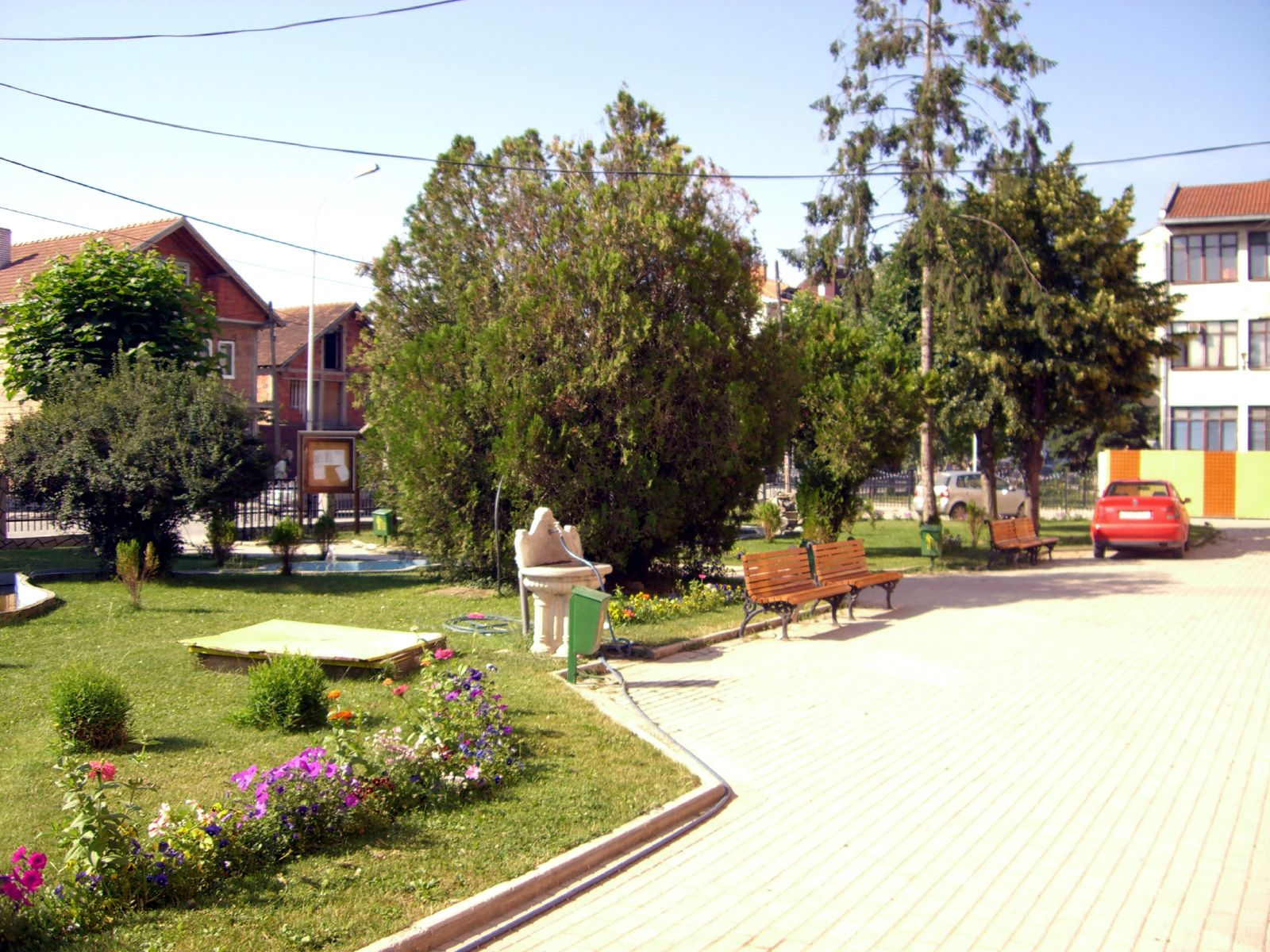 Lipljan